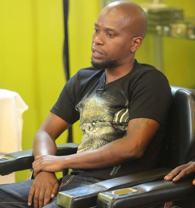 Dknob during the Mkasi TV Interview in Dar es Salaam.